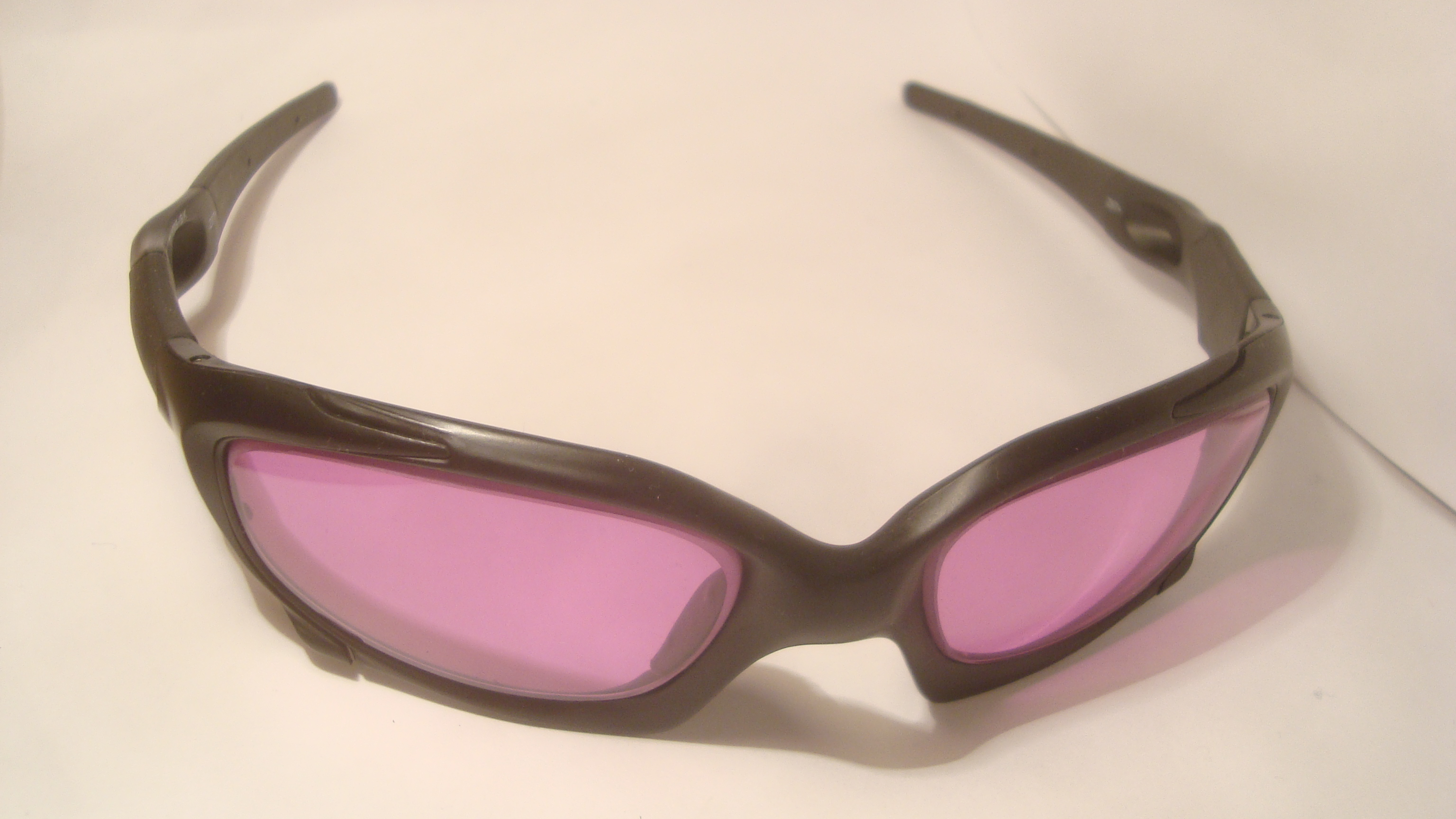 Didymium Glasses Black Wrap Frame